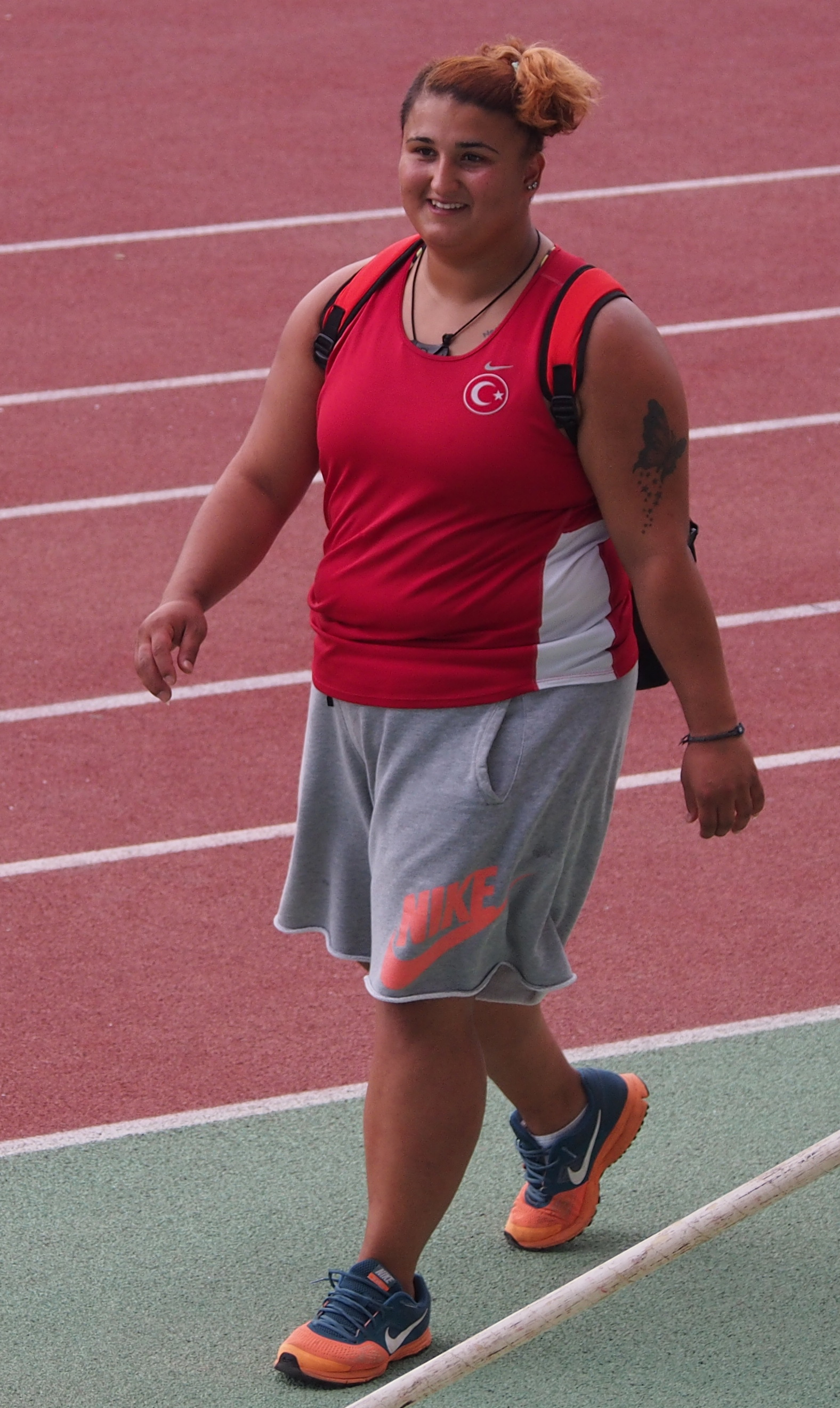 Emel Dereli, representing Turkey in women's shot put at at 2015 European Team Championships First League, after winning the event.